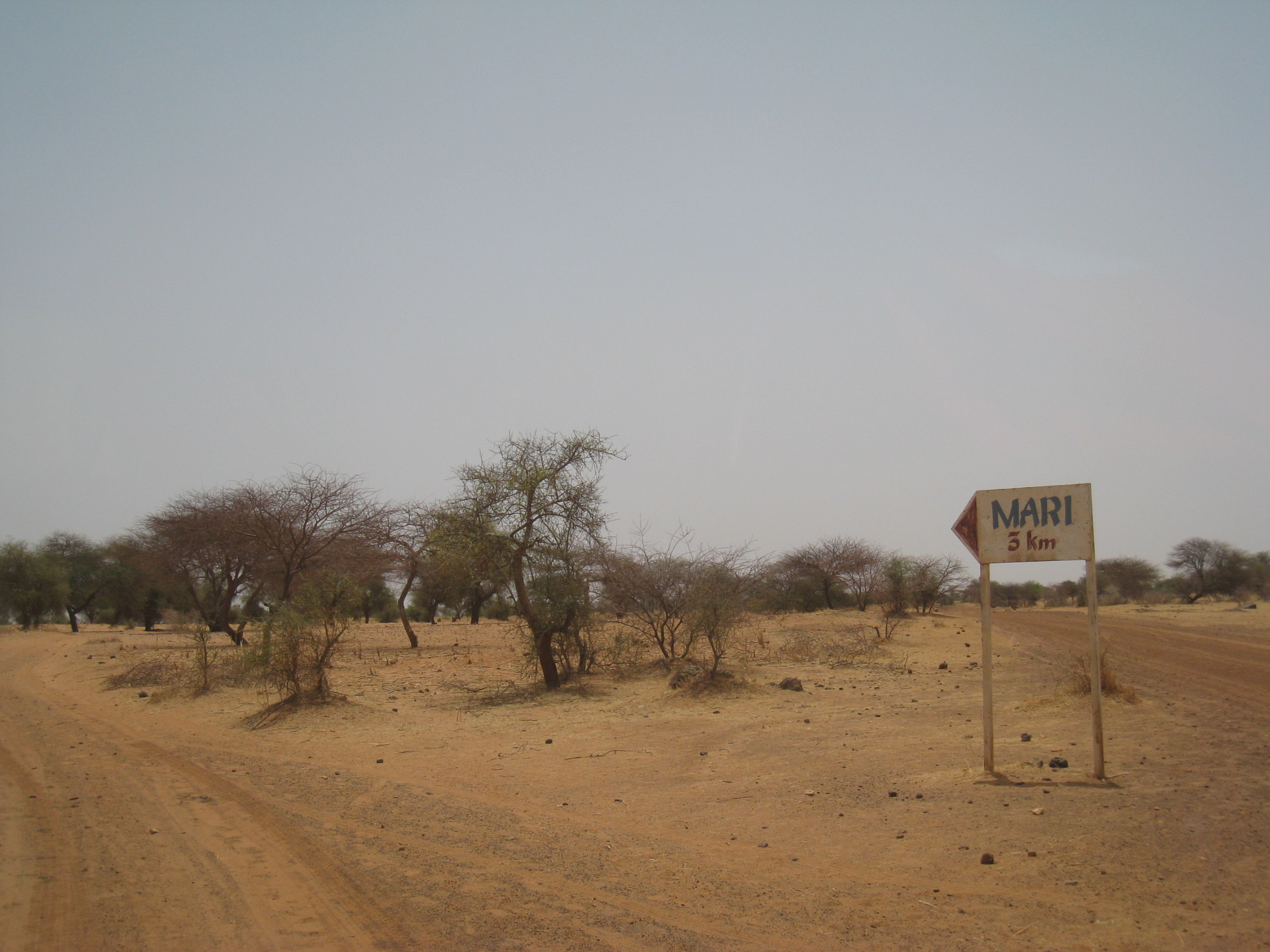 Daniel (a team mate) and I went to visit the health centre at Mari, a few kms outside of Tillaberi.